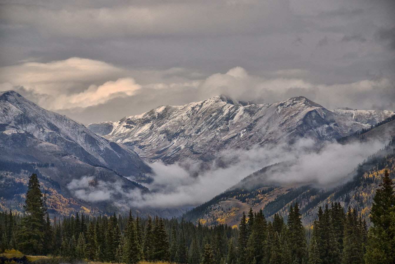 San Juan Mts, taken north of Durango, fall of 2008.